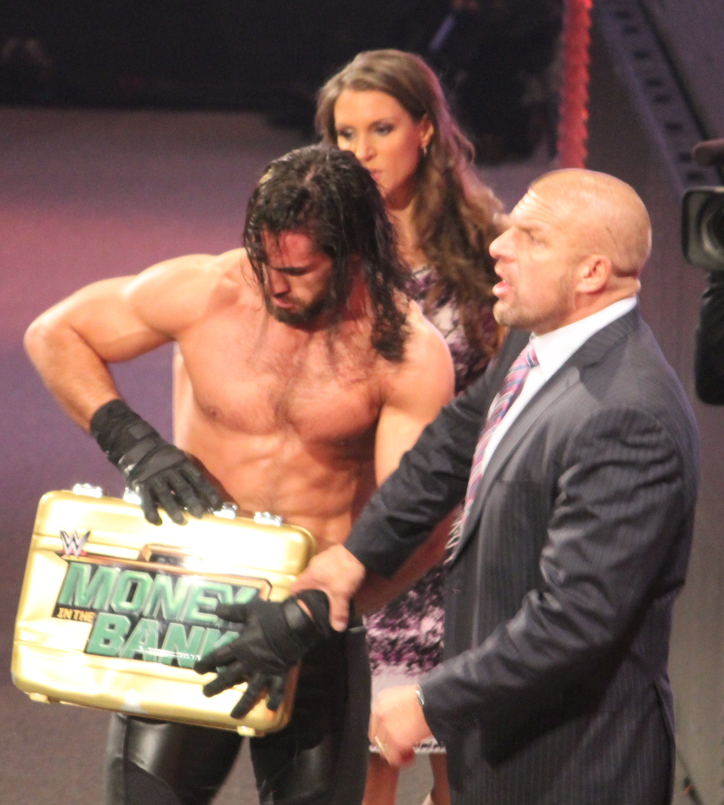 Seth Rollins, Stephanie McMahon (back), and Triple H (front) as part of The Authority in September 2014 at Night of Champions 2014. Cropped from original.